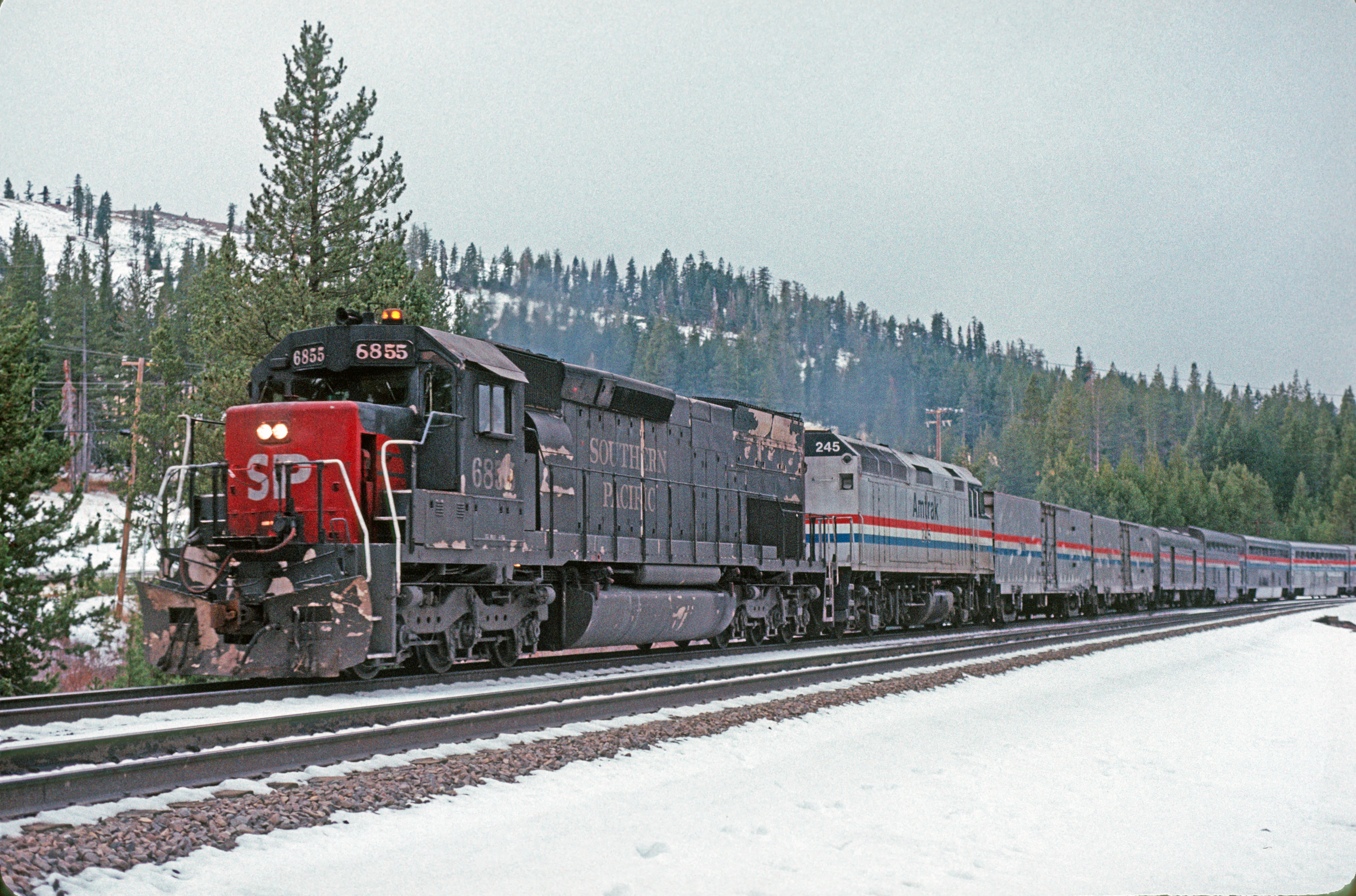 Amtrak train #6, the eastbound San Francisco Zephyr, at Soda Springs, California